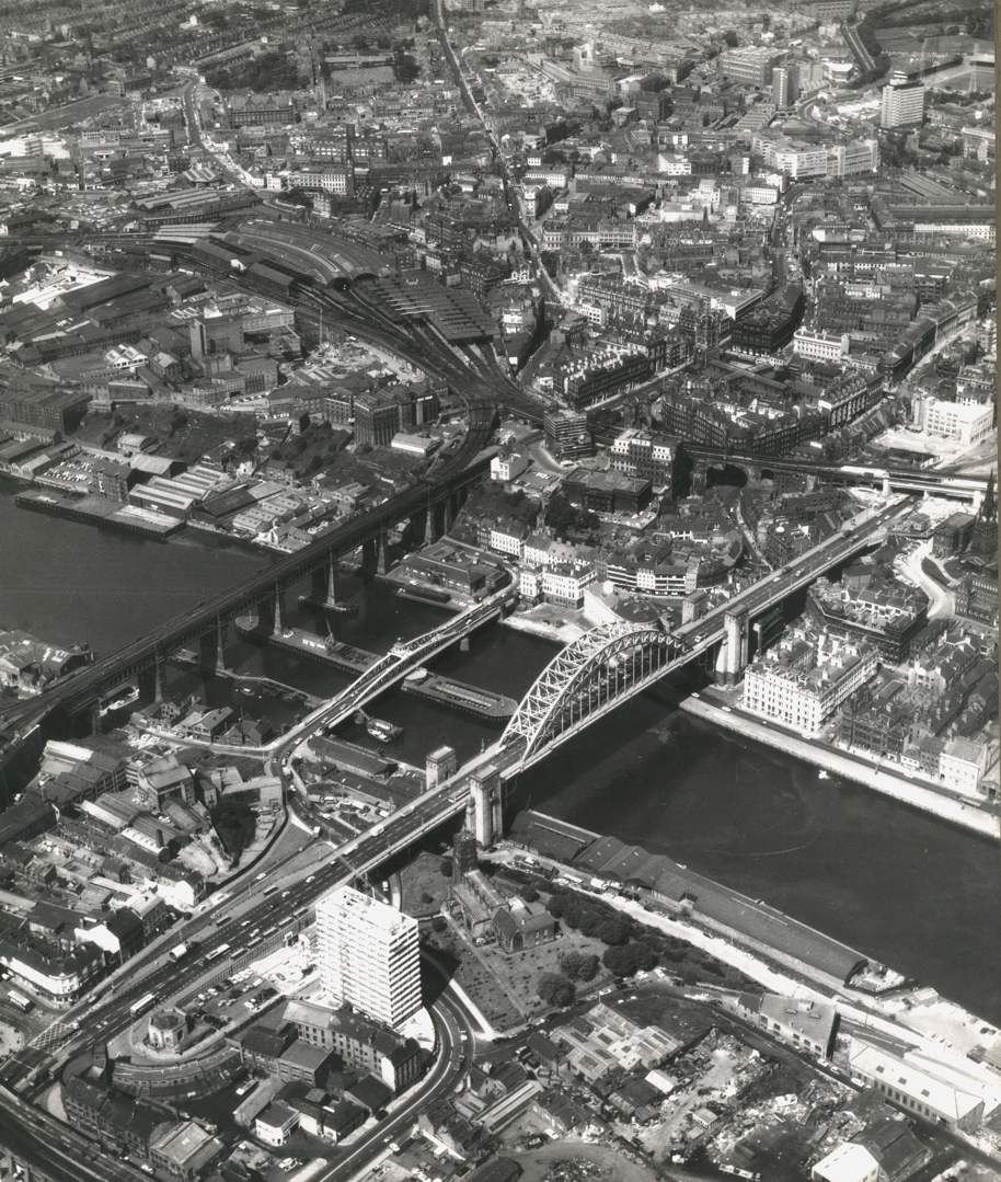 Note the very light traffic flow on the Tyne Bridge and the Castle covered in scaffolding for restoration. Reference: TWAS: DT.TUR.7.9 (Copyright) We're happy for you to share this digital image within the spirit of The Commons. Please cite 'Tyne & Wear Archives & Museums' when reusing. Certain restrictions on high quality reproductions and commercial use of the original physical version apply though; if you're unsure please . To purchase a hi-res copy please quoting the title and reference number